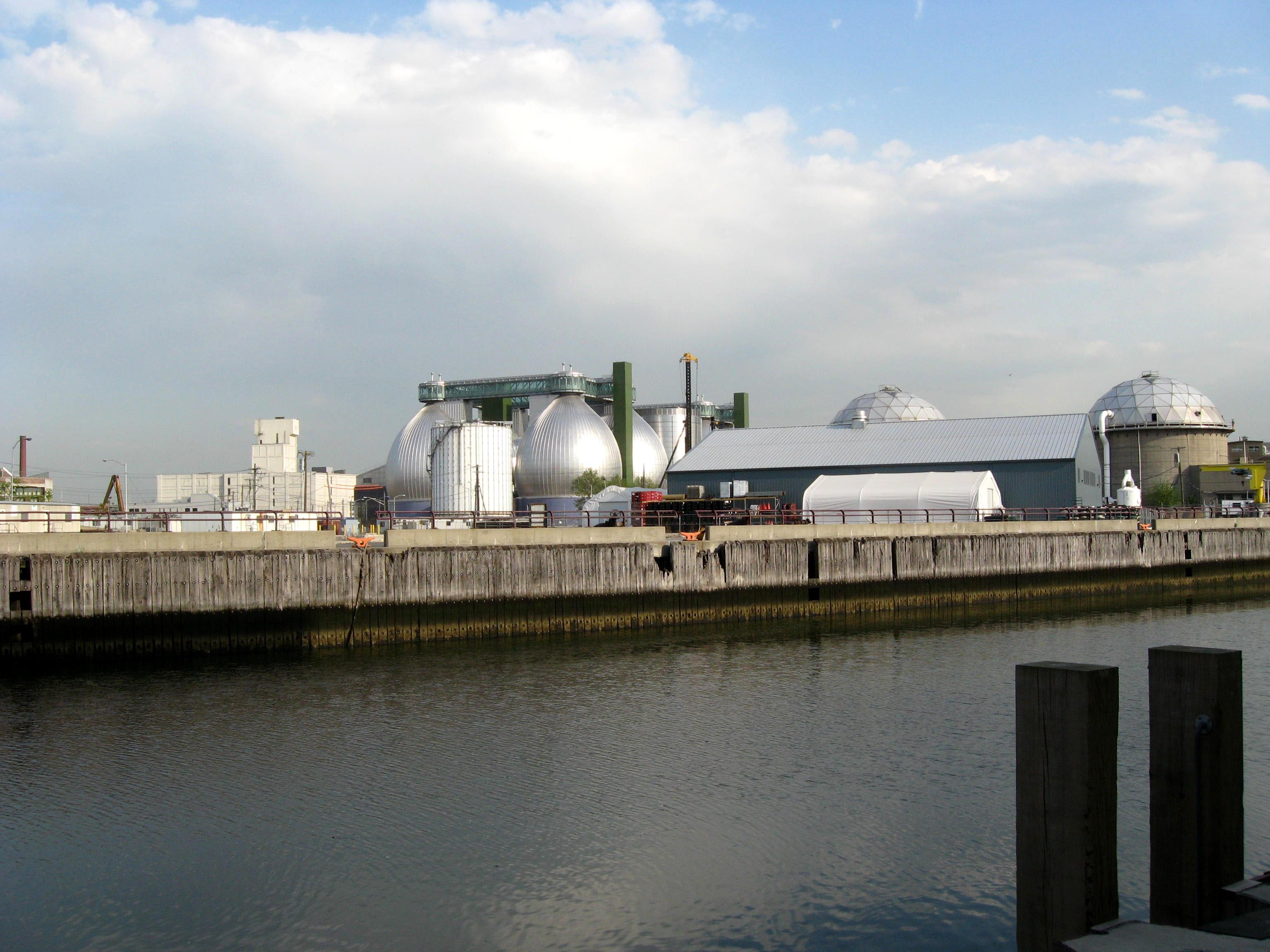 The egg-shaped digesters of the Newtown Creek WPCP as seen looking southeast across Whale Creek and south of Newtown Creek mainstream on a sunny afternoon.